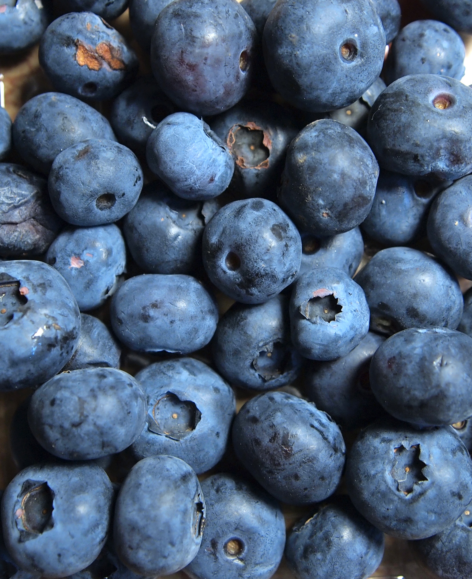 Vaccinium corymbosum.